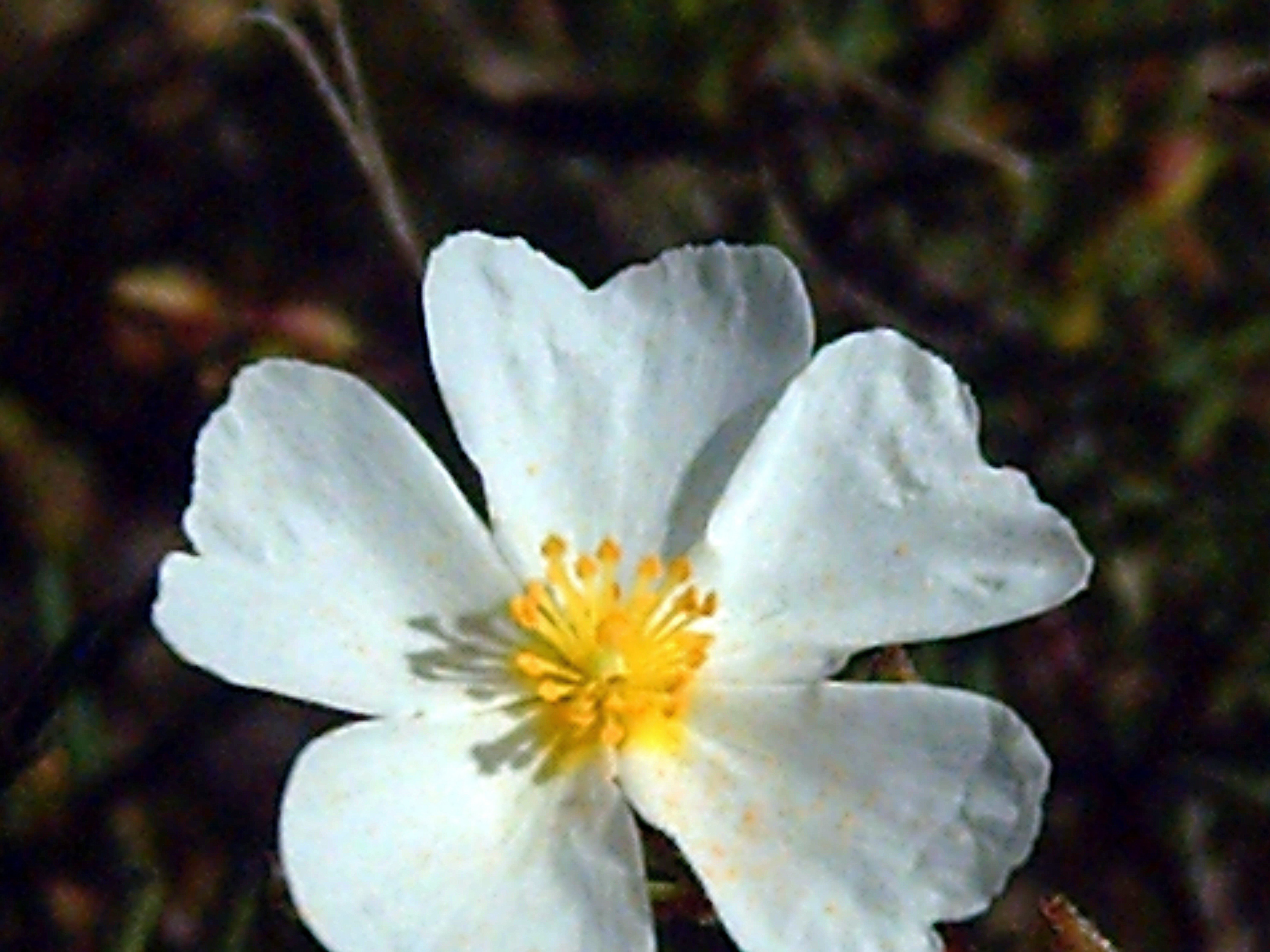 Helianthemum violaceum Flower Closeup Sierra Madrona, Spain